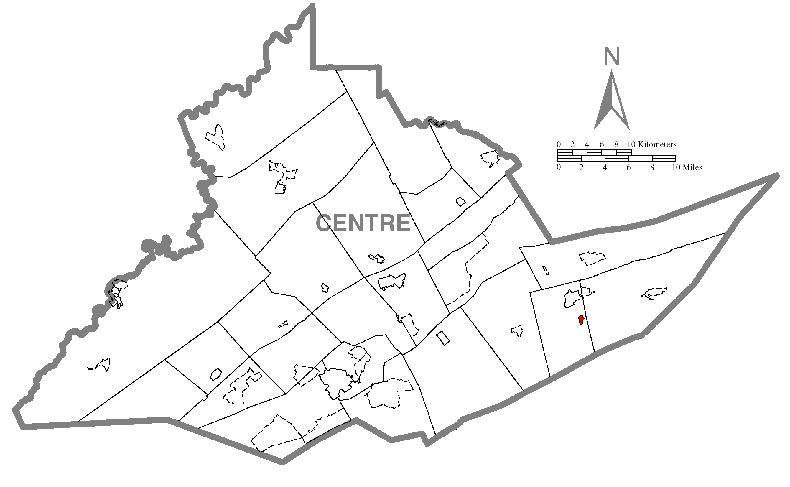 A map of Centre County showing Coburn, Pennsylvania (alternate) highlighted on the map.